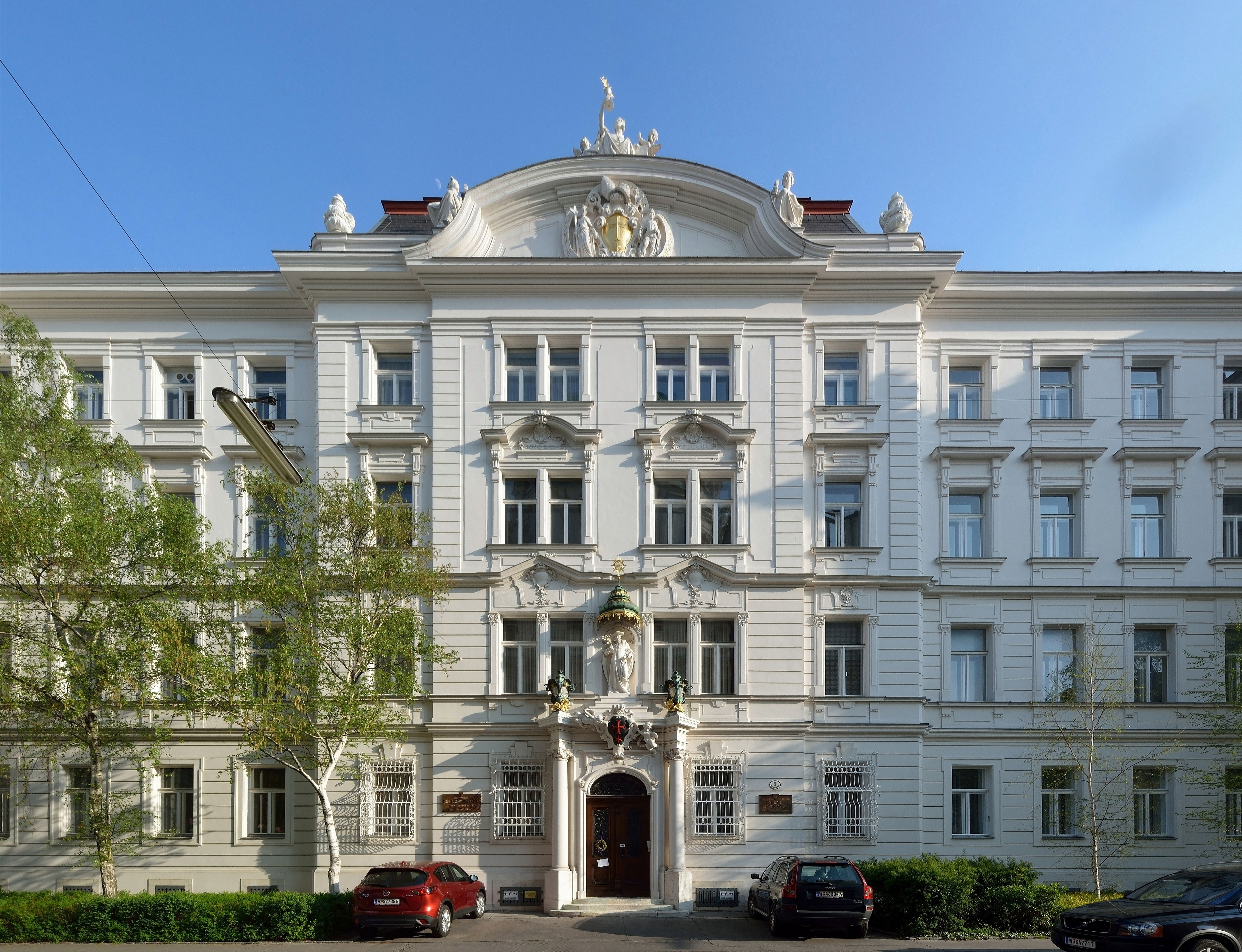 House of the Knights of the Cross with the Red Star, Kreuzherrengasse 1, 4th district of Vienna